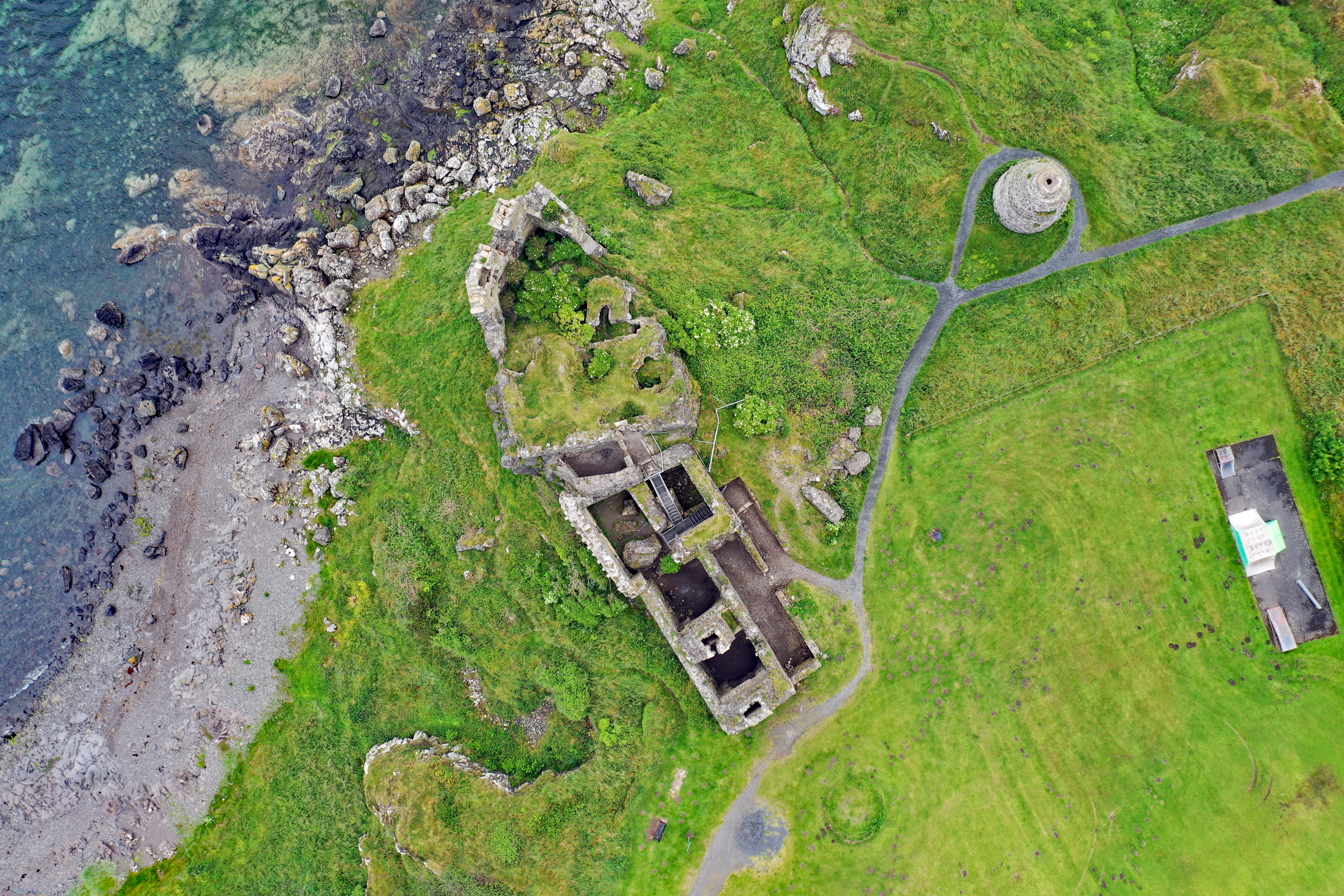 Dunure Castle (Ayrshire, Scotland, UK)